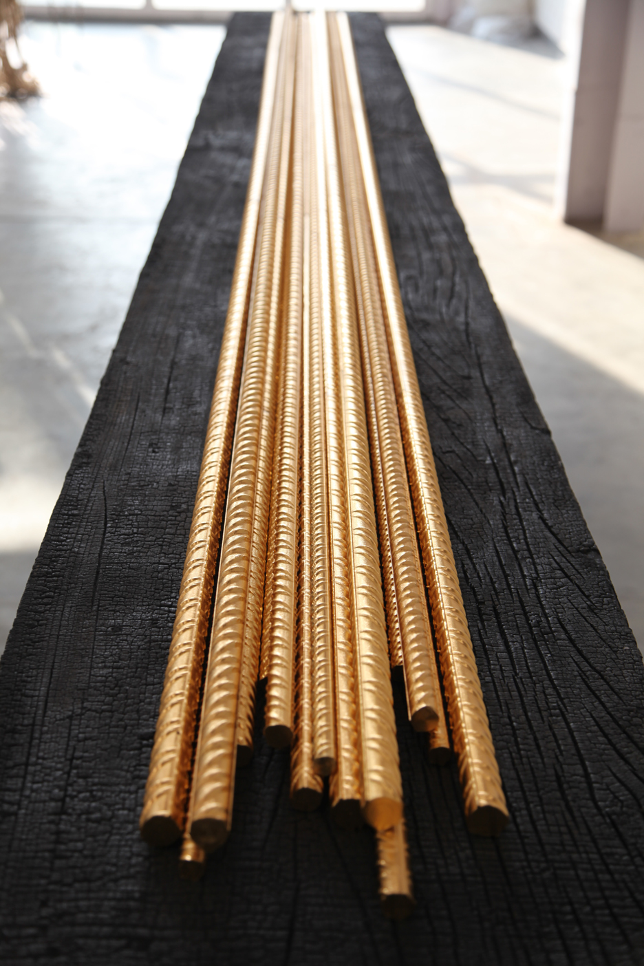 Golden rods on a burnt table